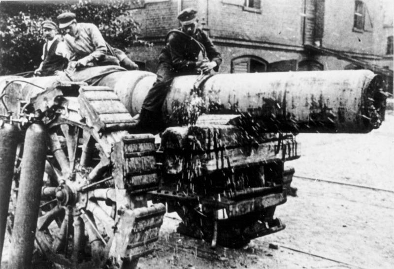 Photo from German archives, showing the destruction of a heavy gun in accordance with the Treaty of Versailles.